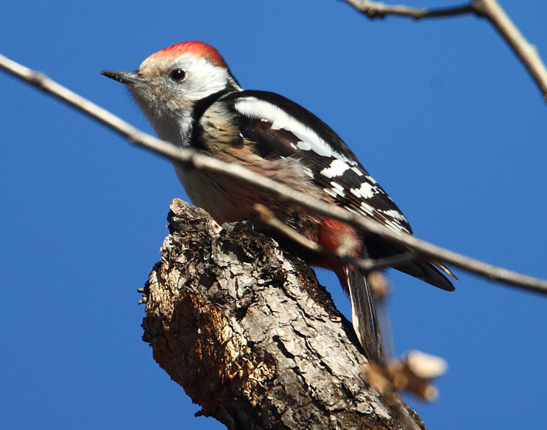 Middle spotted woodpecker (Dendrocoptes medius) at Kızılırmak Delta